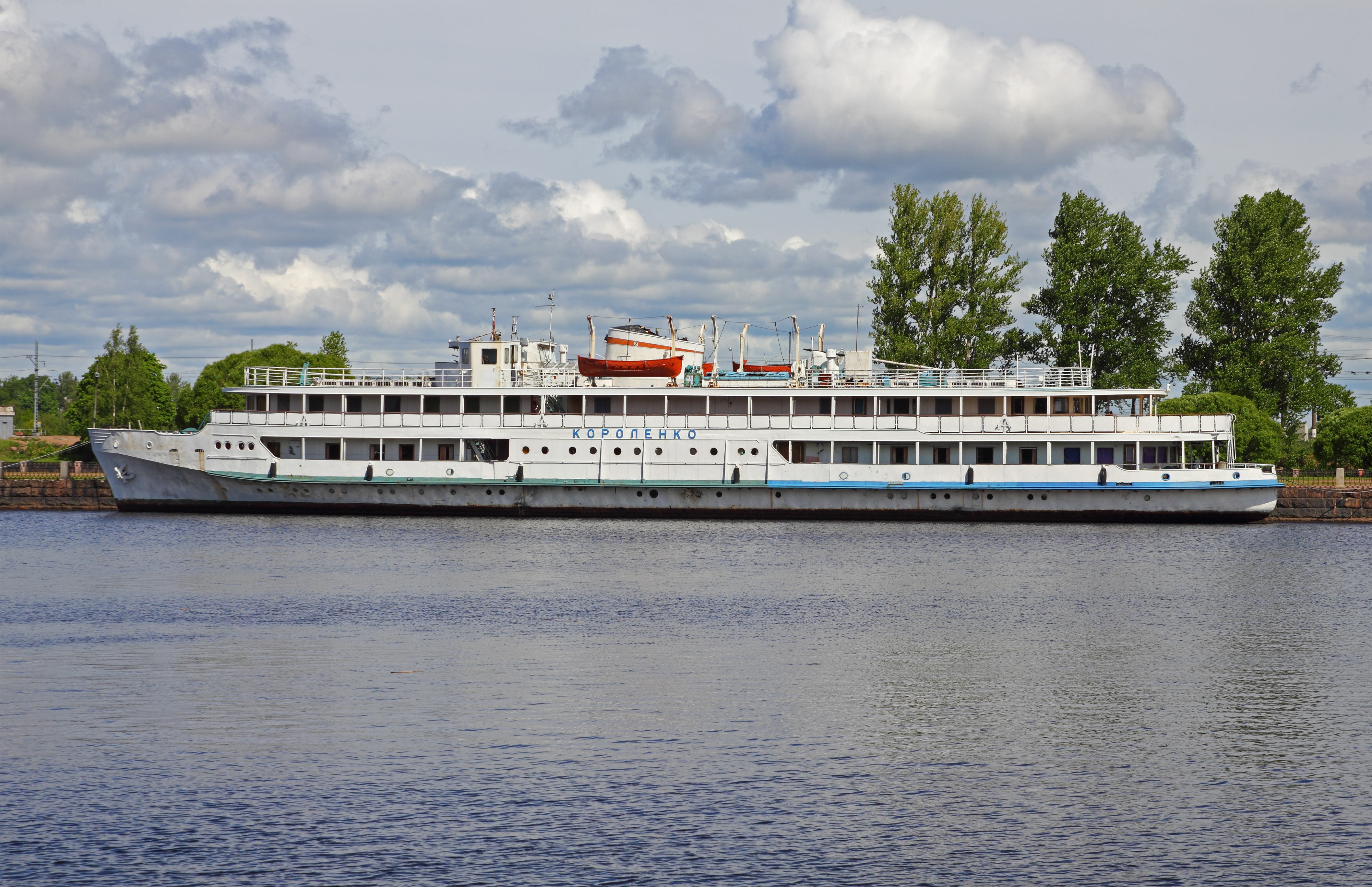 Vyborg (former Viipuri), Leningrad Oblast, Russia. Hotel ship Korolenko in the Northern Bay.